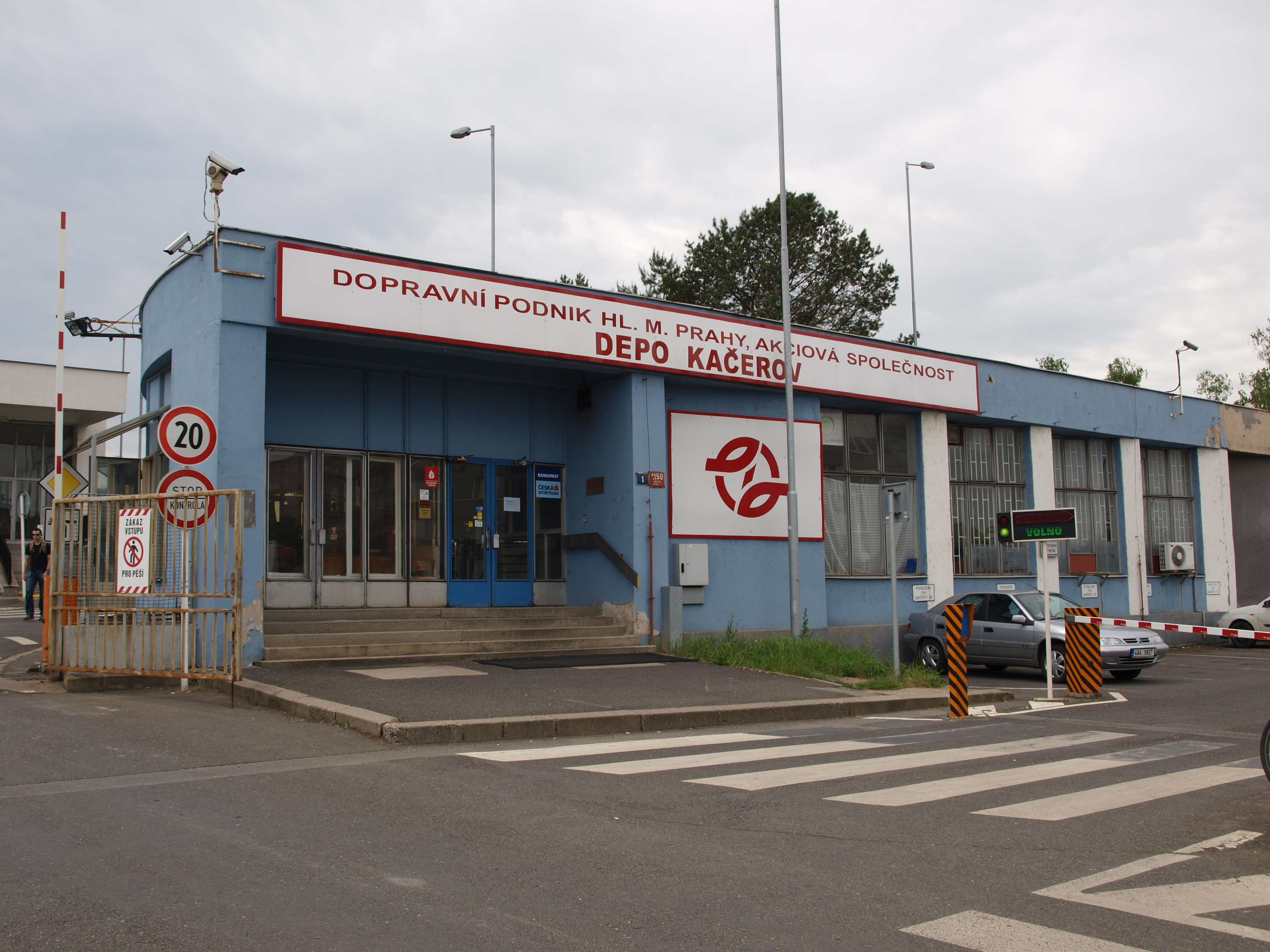 Reception of Kačerov metro depot